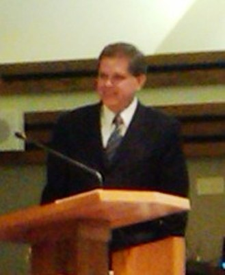 David LeRoy Beck, the the 21st general president of the Young Men organization of The Church of Jesus Christ of Latter-day Saints (LDS Church) from 2009 to 2015.